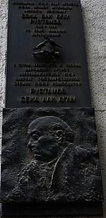 Plaque on building where Azerbaijani composer Said Rustamov lived in Baku